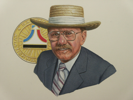 Air University's 2005 Gathering of Eagles lithograph of honoree test pilot Bob Hoover.